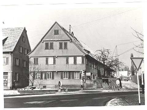 House (historic) of the Ganzhorn family in the town Sindelfingen, in the former street "Stuttgarter Straße 1", then Vaihinger Straße 1, now Rathausplatz; see Wilhelm Ganzhorn